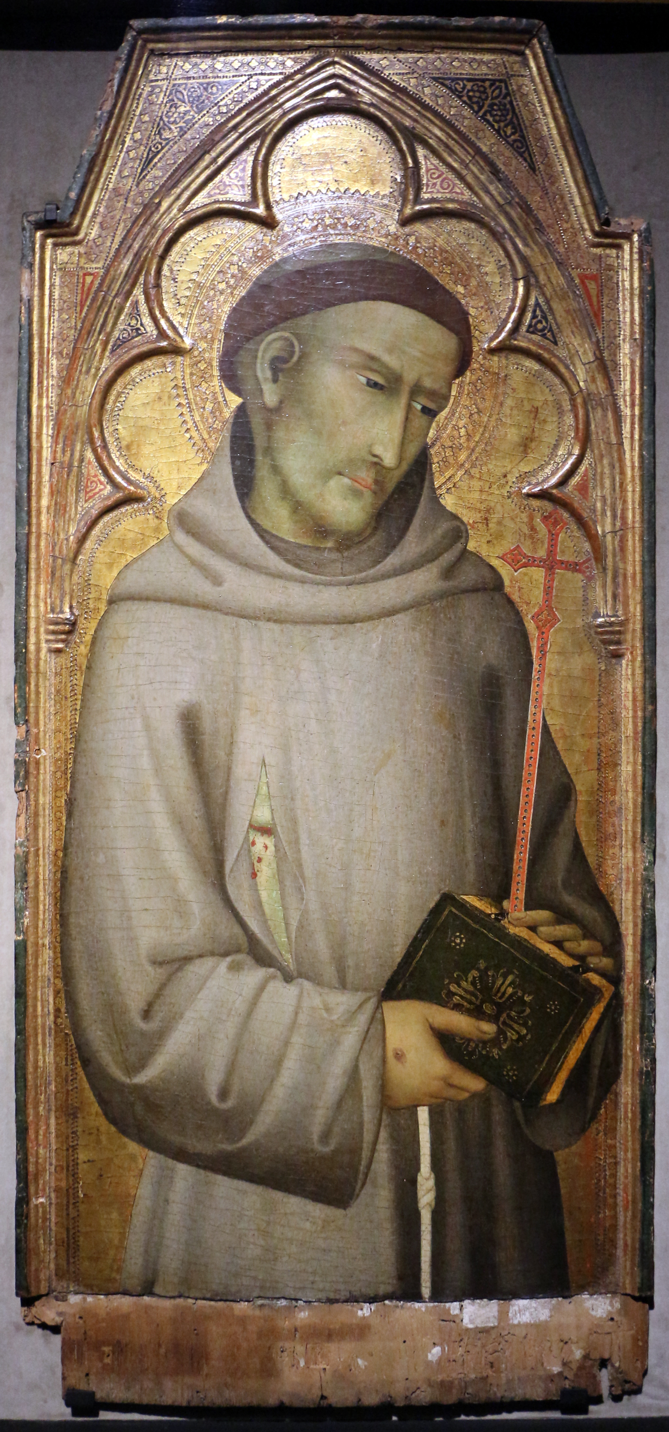 Franciscus exhibition in the Museum Catharijneconvent (2016)